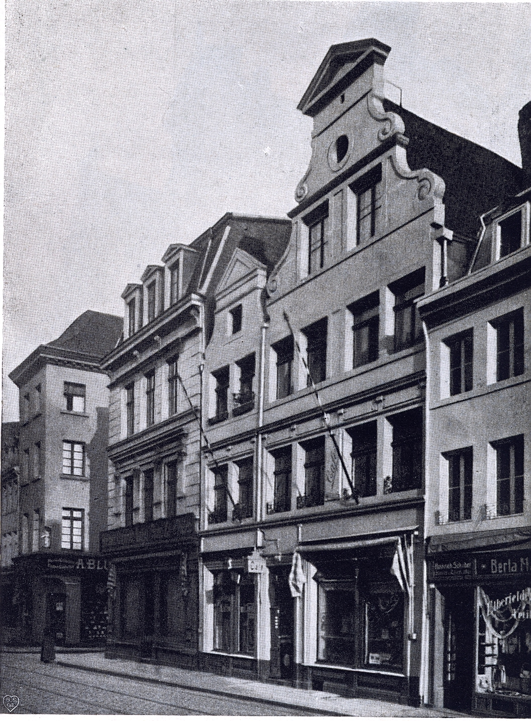 t